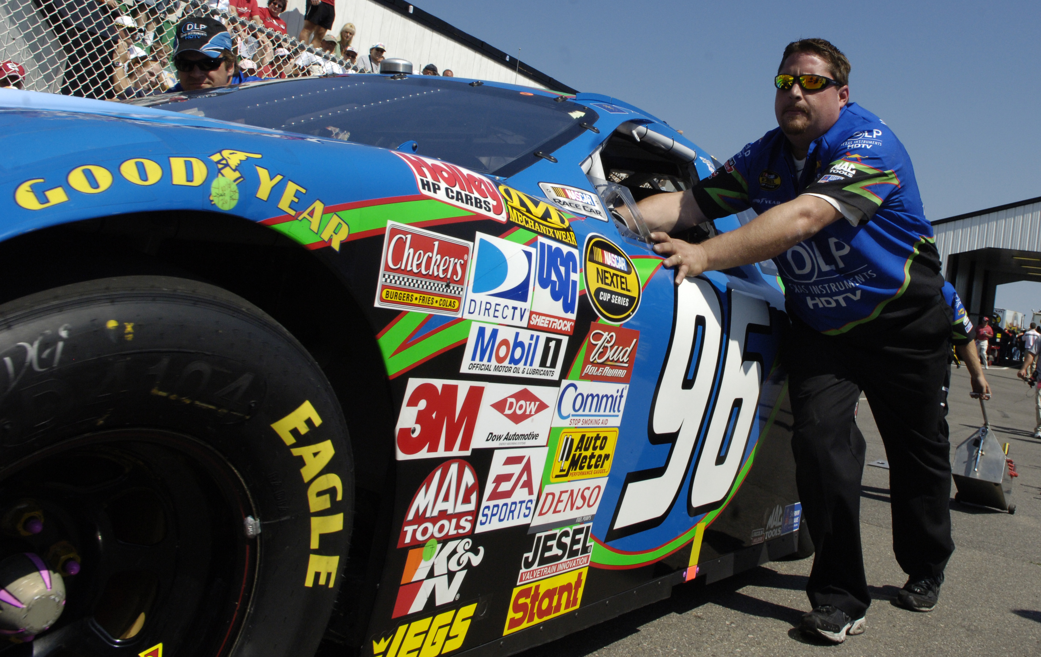 Pit crew members get their car in position to start the NASCAR Pennsylvania 500 auto race at the Pocono Raceway in Long Pond, Penn., Aug. 5, 2007.